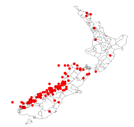 Carmichaelia arborea occurrence data from Australasian Virtual Herbarium downloaded 2 December 2019 using